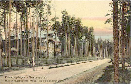 Sestroretsk, Andreyeva street (former Zheleznodorozhnaya).